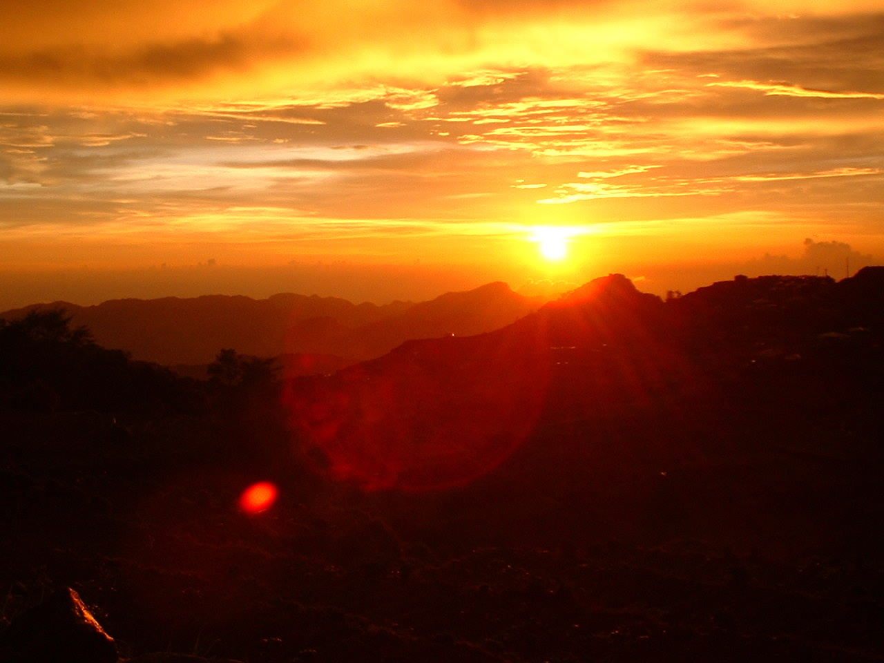 Sunset in Atok, Benguet, Philippines